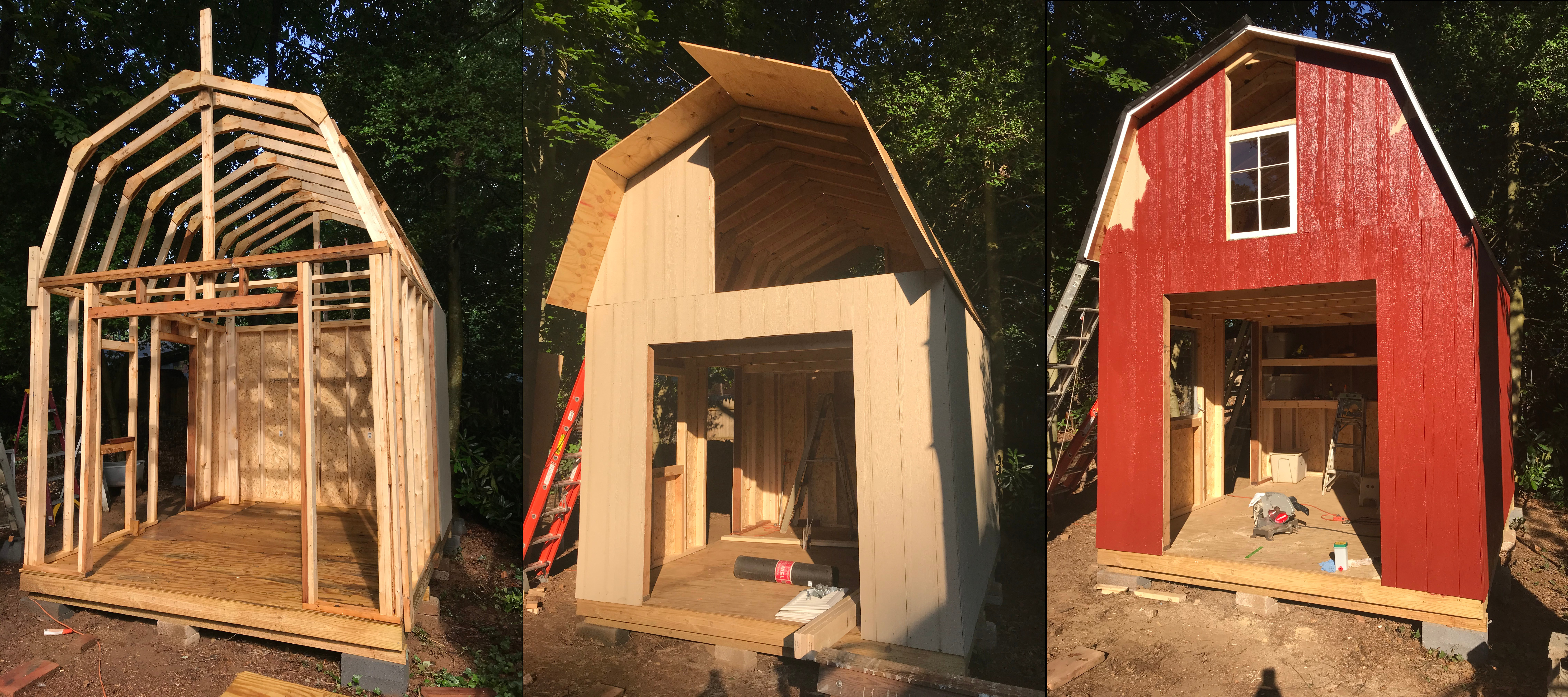 Construction of 10 x 12 foot gambrel shed loosely based on blueprints from